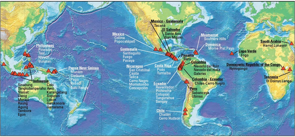 Map of responses by the USGS/OFDA Volcano Disaster Assistance Program.